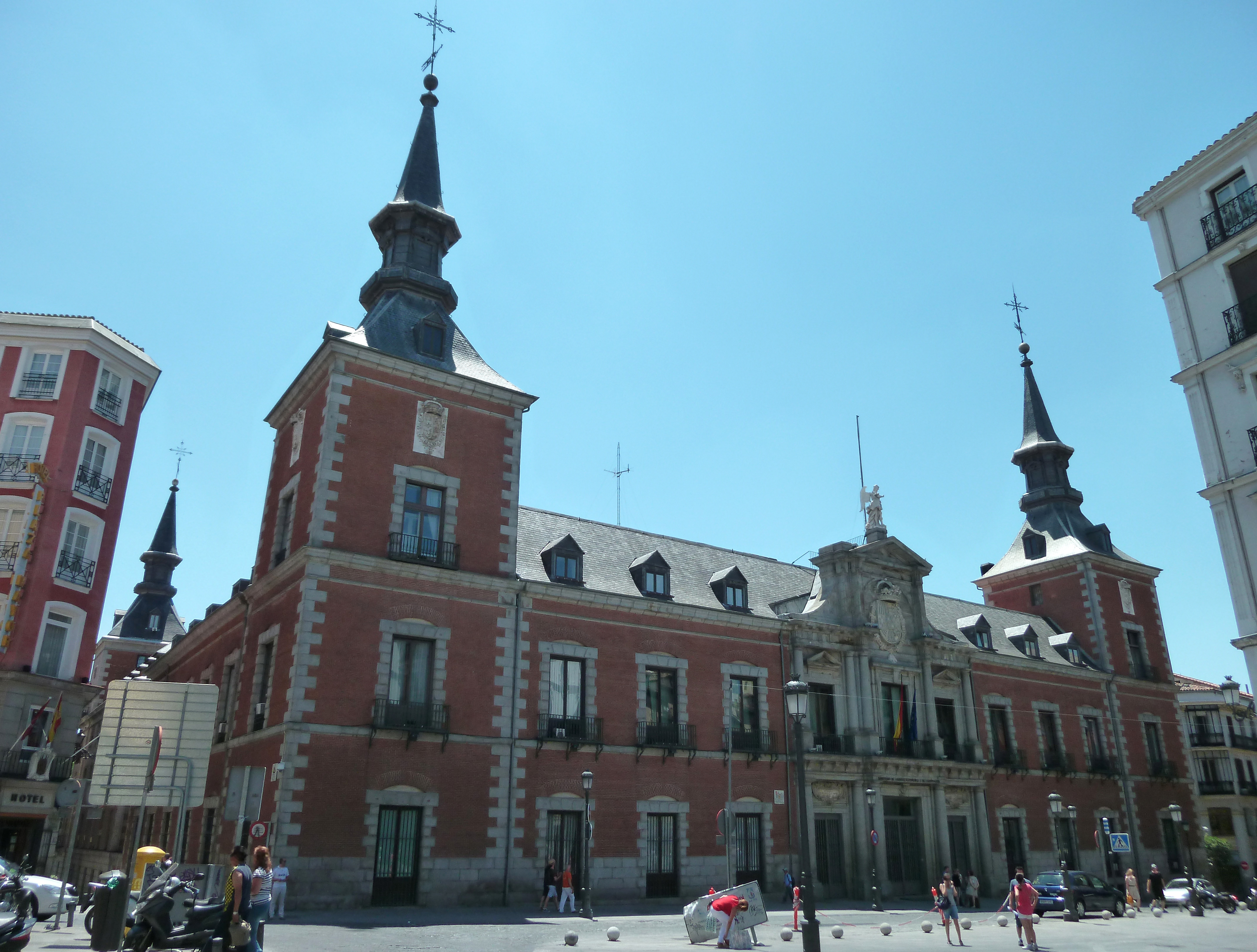 Façade of Palacio de Santa Cruz in Madrid (Spain).